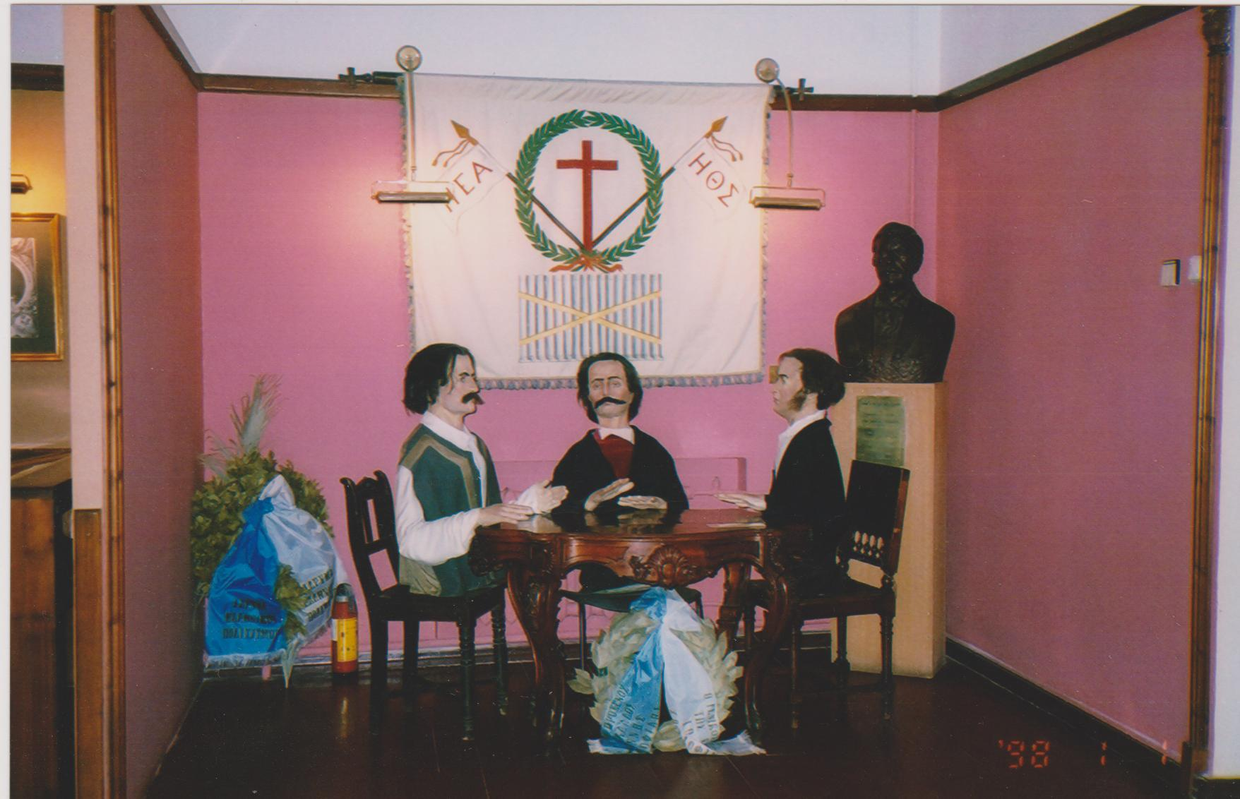 Impression of the members of Filiki Eteria, discussing its establishment, Odessa